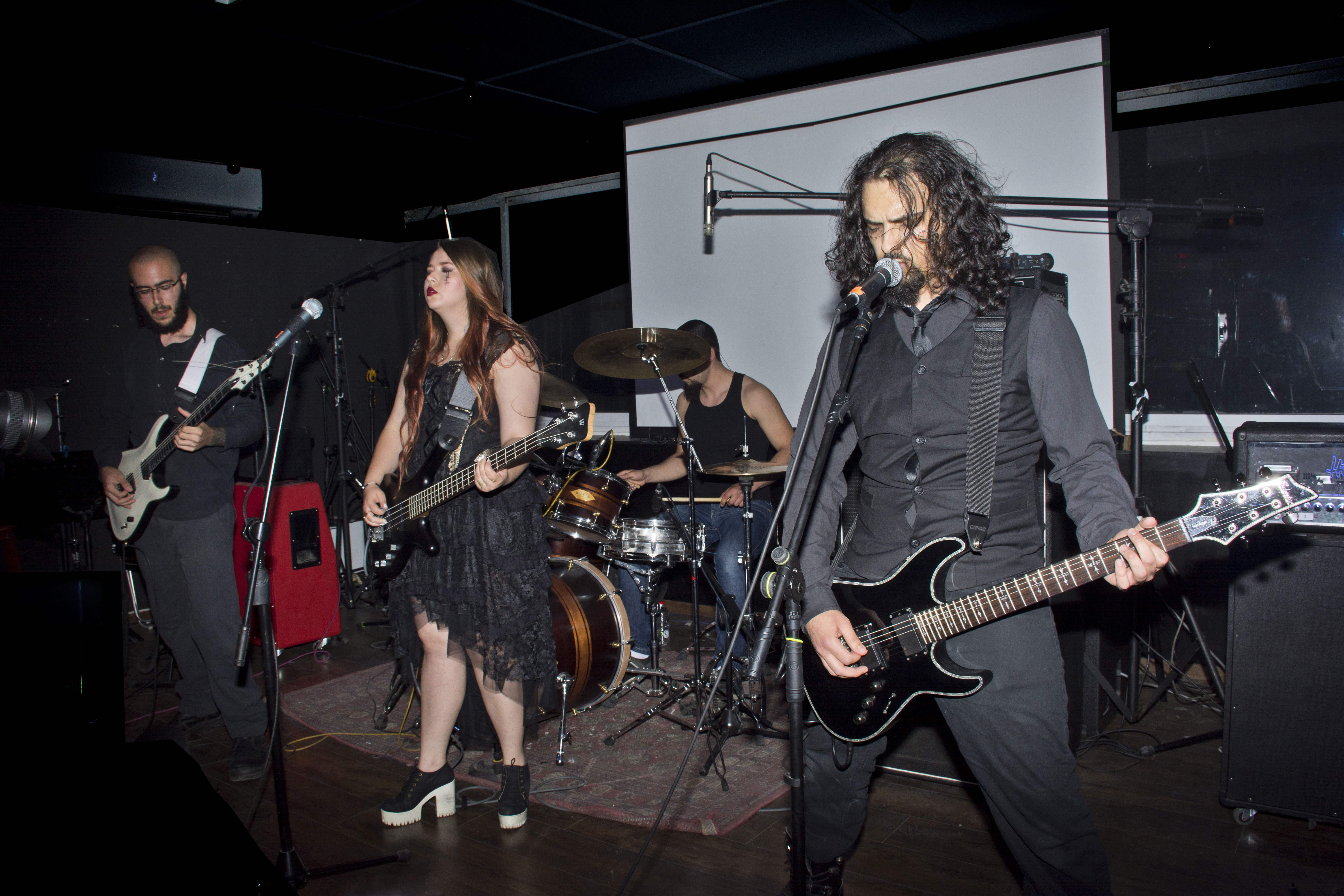 Edellom - Israeli Gothic Doom / Death metal band. This is the launching concert of their demo "Long Lost Suns", held in Tel Aviv, Israel, on April 24, 2016.